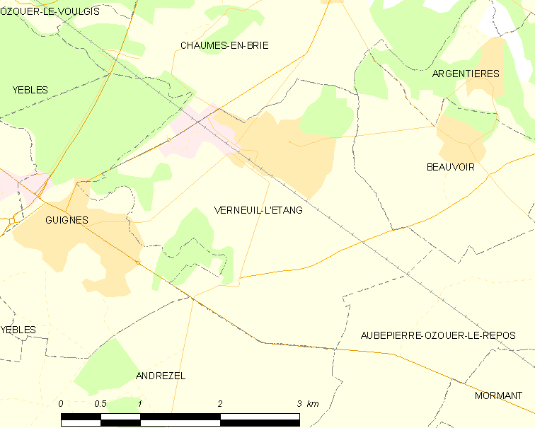 Map of French municipality Verneuil-l'Étang